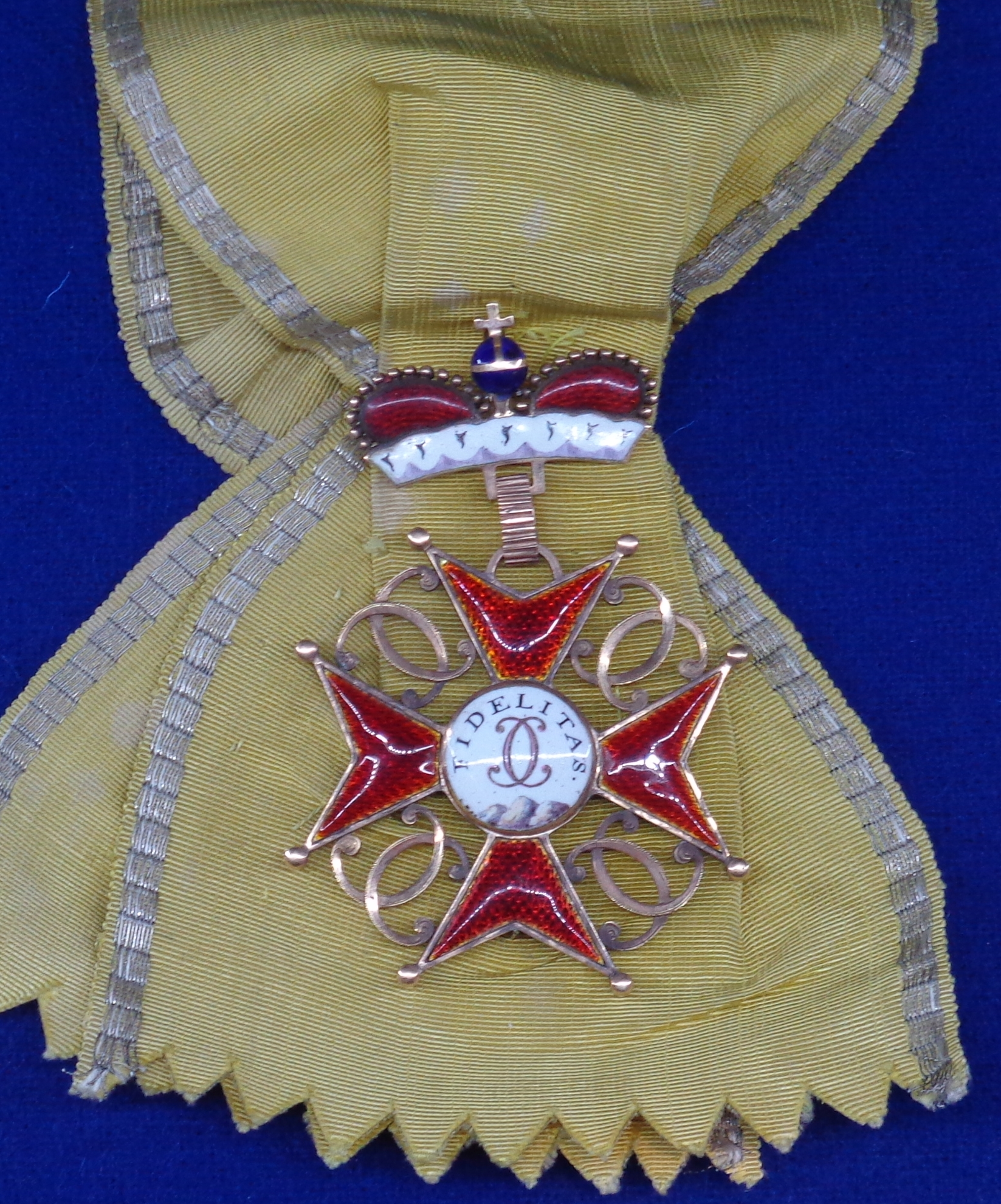 House Order of Fidelity, badge and sash of Grand Cross, 1715-1803. Margraviate of Baden. The exhibition of the Tallinn Museum of Orders of Knighthood, Estonia.